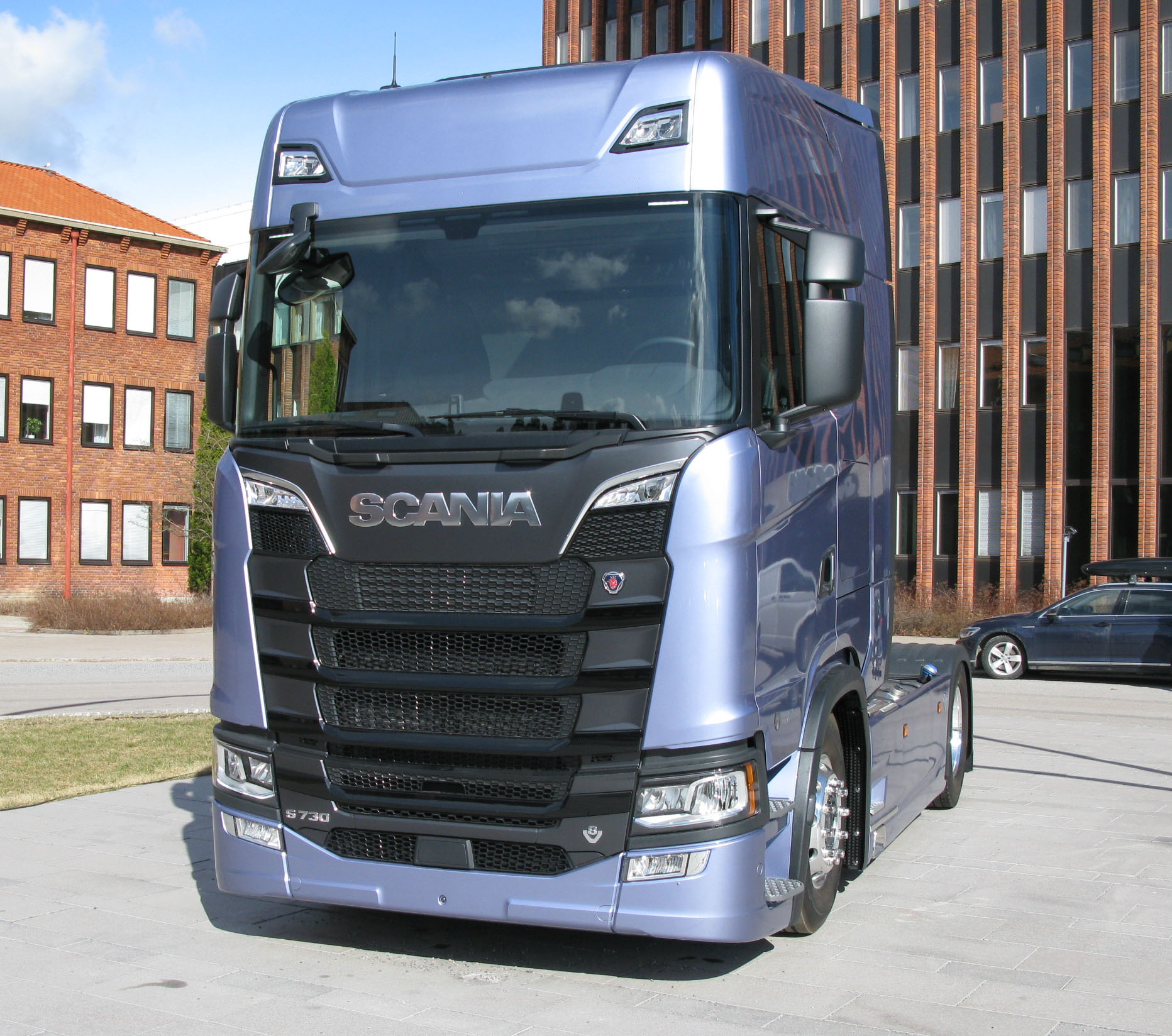 2017 Scania S730 4X2 Highline cab